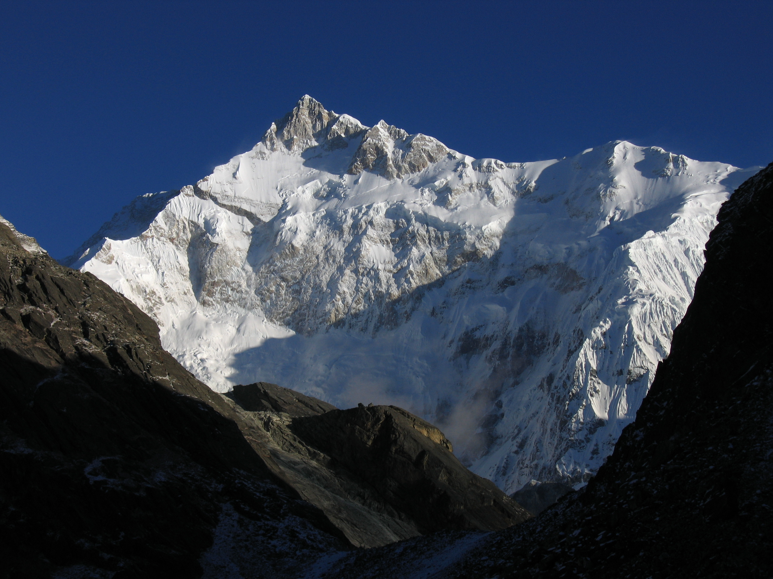 Picture of Kangchenjunga taken by author from Goecha La pass, 4940m, Sikkim. The peak in the image is actually the South peak of Kangchenjunga, which is about 400 ft lower than the main peak. You can also see the West peak of Kangchenjunga (Yalung Kang) as the round peak slightly to the left of the South Ridge (the ridge going left from the South peak).